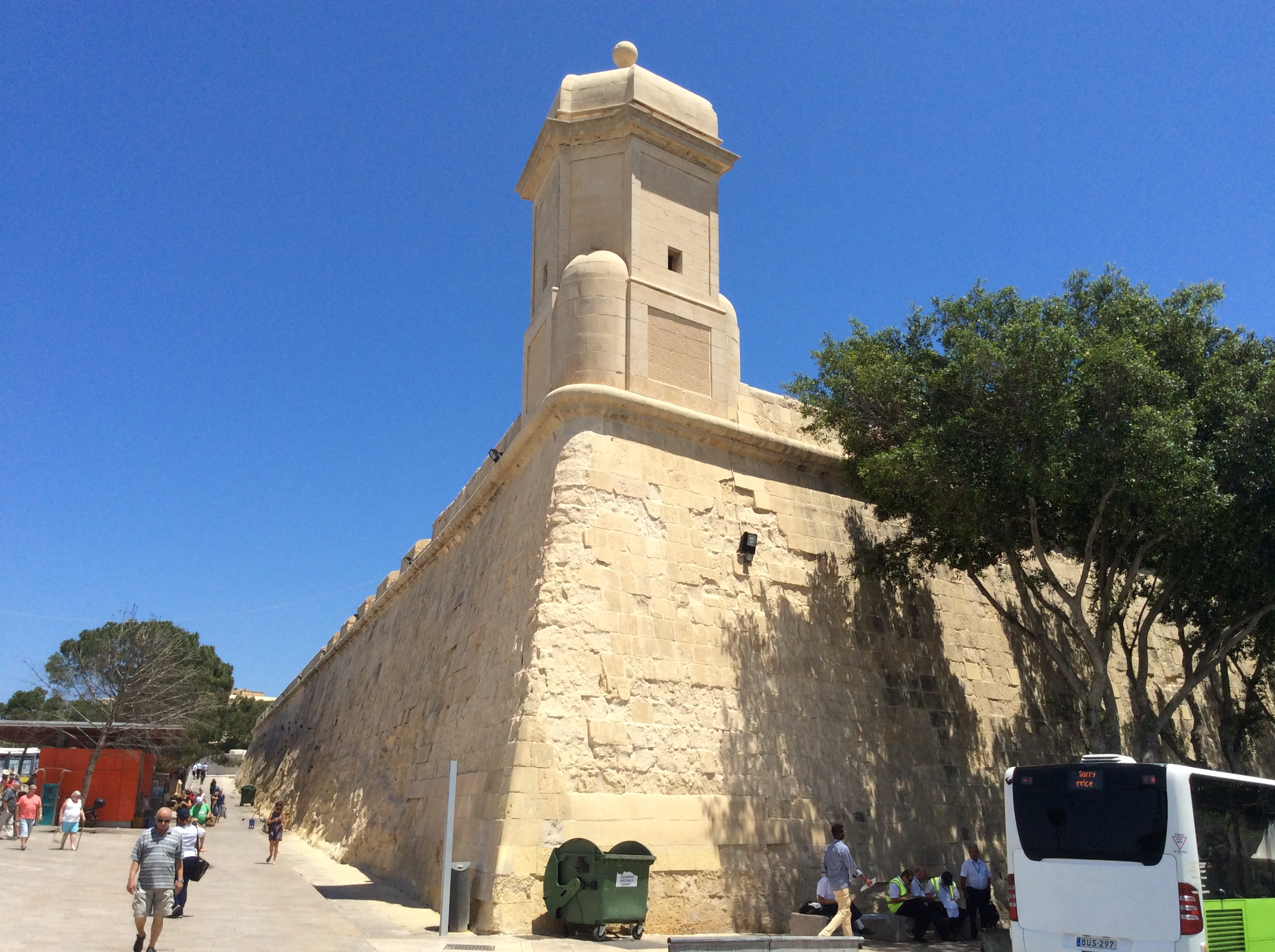 St James Counterguard